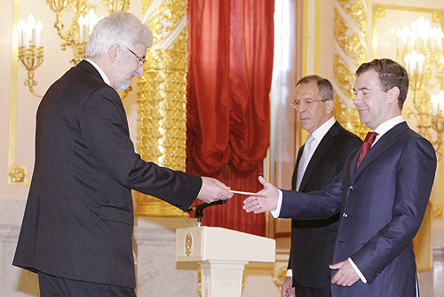 THE KREMLIN, MOSCOW. Presentation by foreign ambassadors of their letters of credence. Ambassador of the Republic of France Jean de Gliniasti presents his letter of credence to the President of Russia.